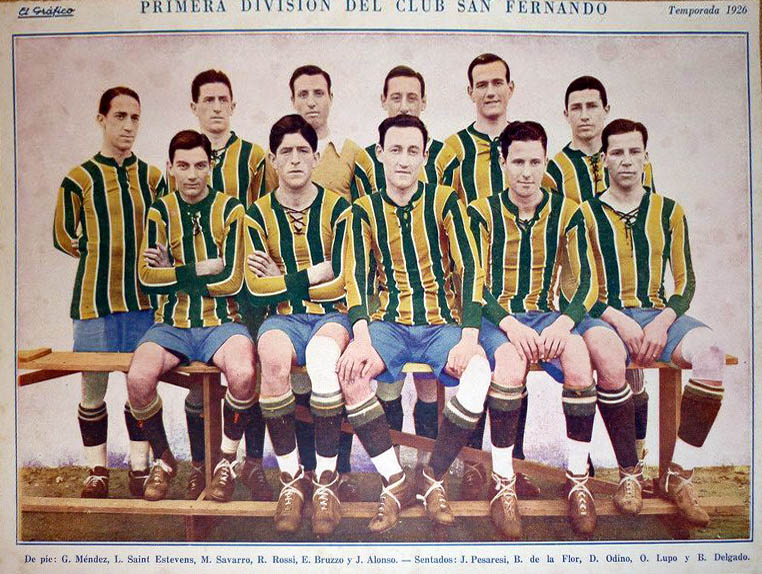 The football team of Argentine Club San Fernando in 1926, posing with the alternate gold, green and white jersey.